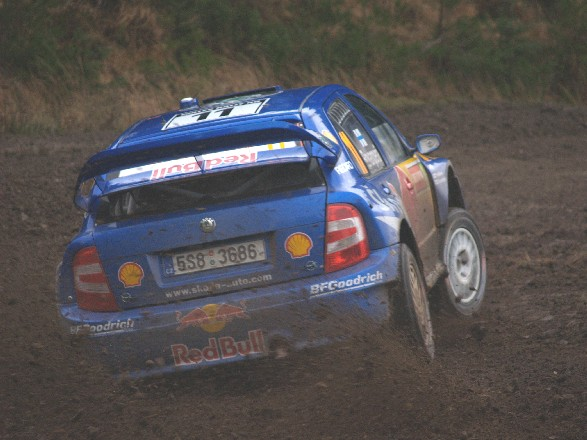 Wales Rally GB 2006 Harri Rovanperä Margam Forest SS4 Škoda Fabia WRC